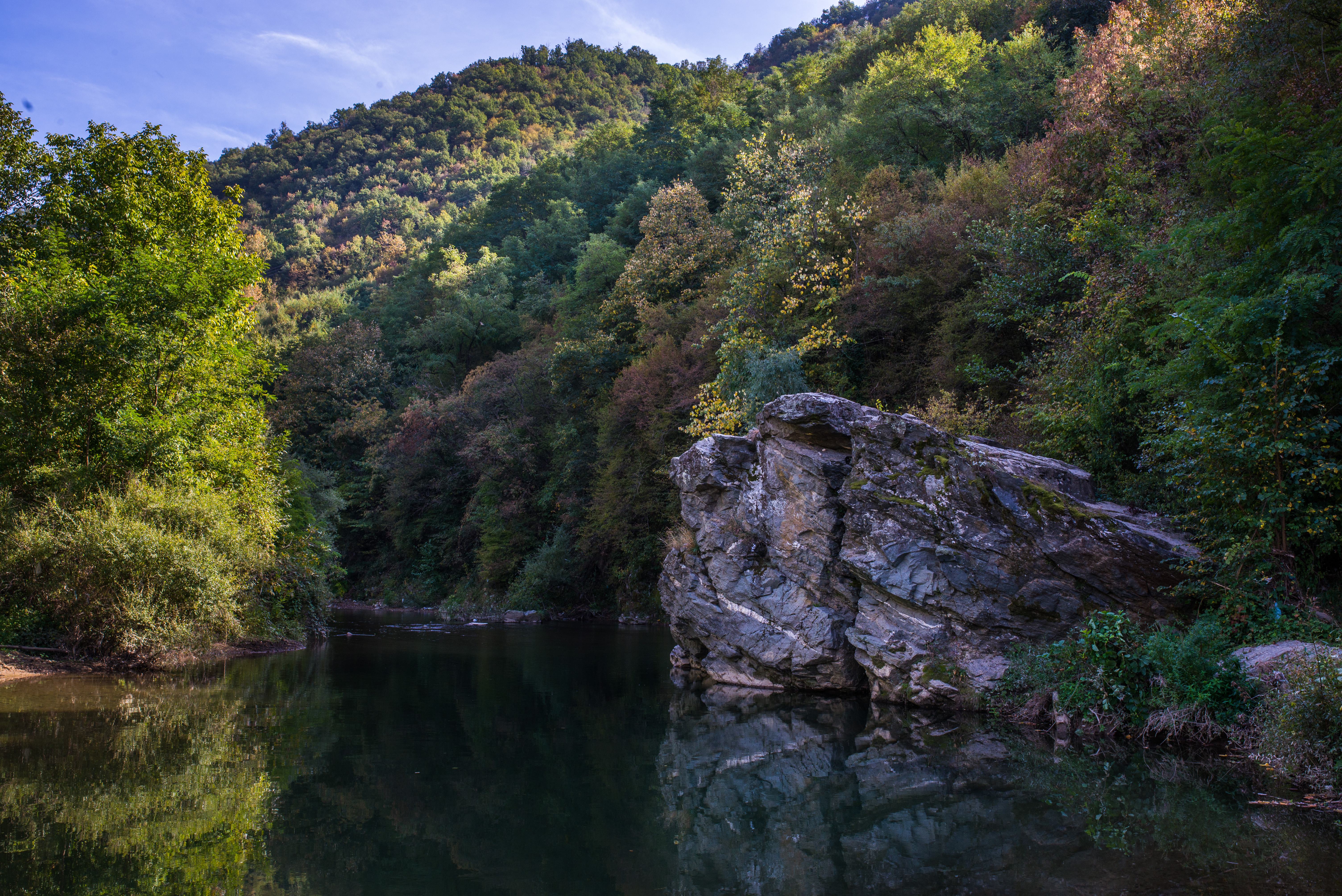 Vlasina river bed.